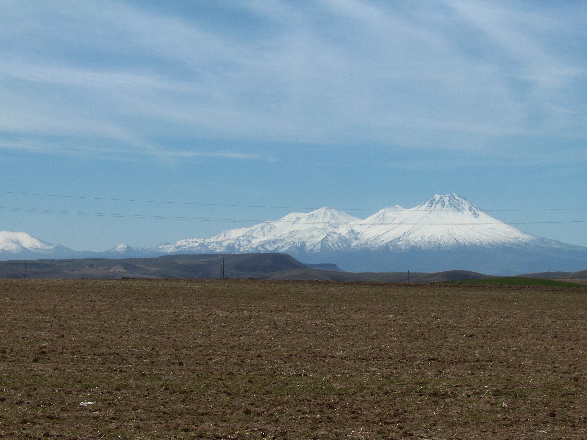 Mount Hasan, Central Anatolia; Turkey